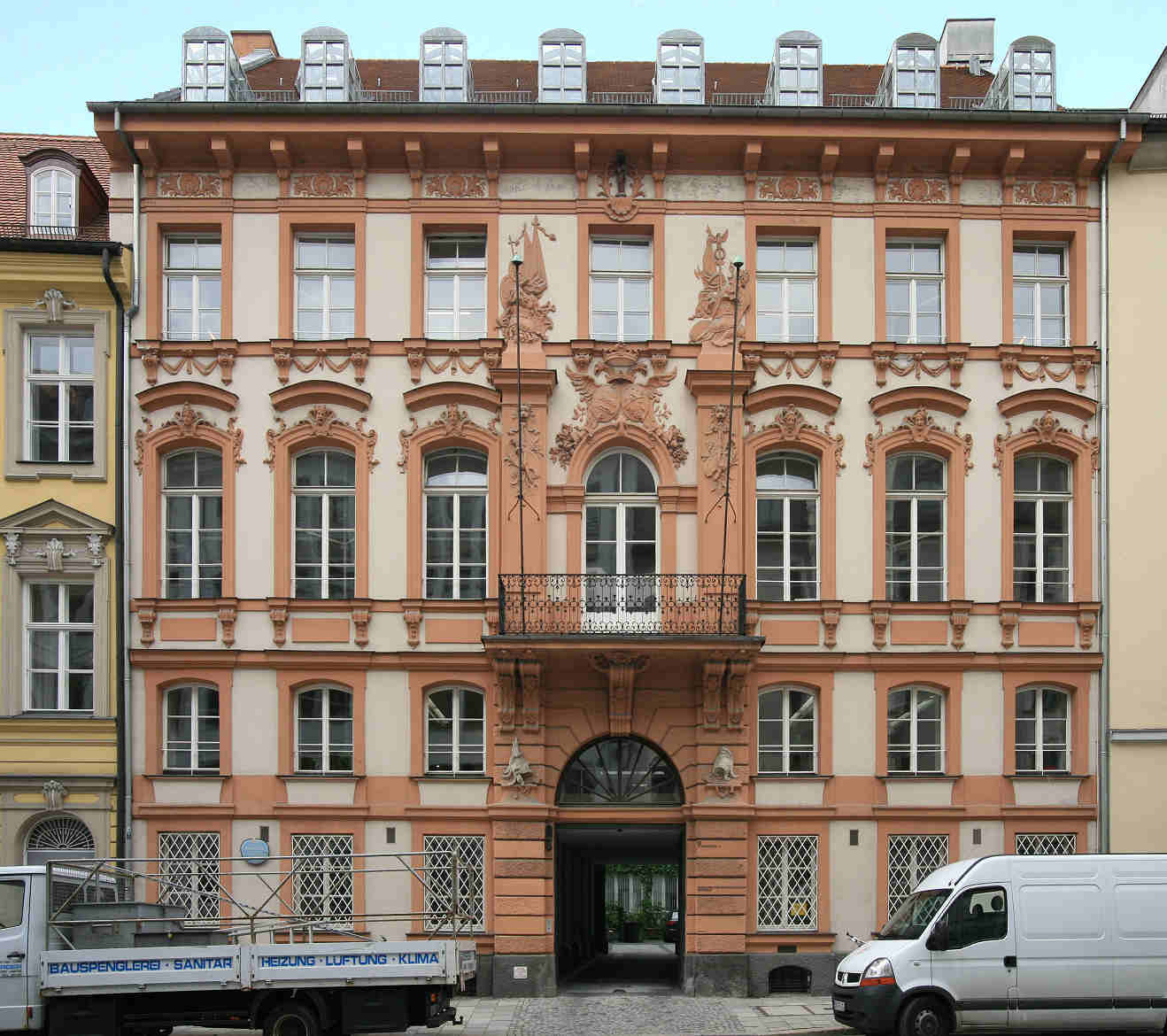 Fassade of the Palais Gise in Munich.